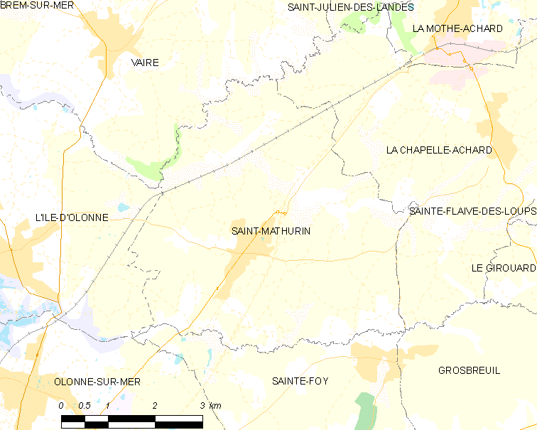 Map of French municipality Saint-Mathurin